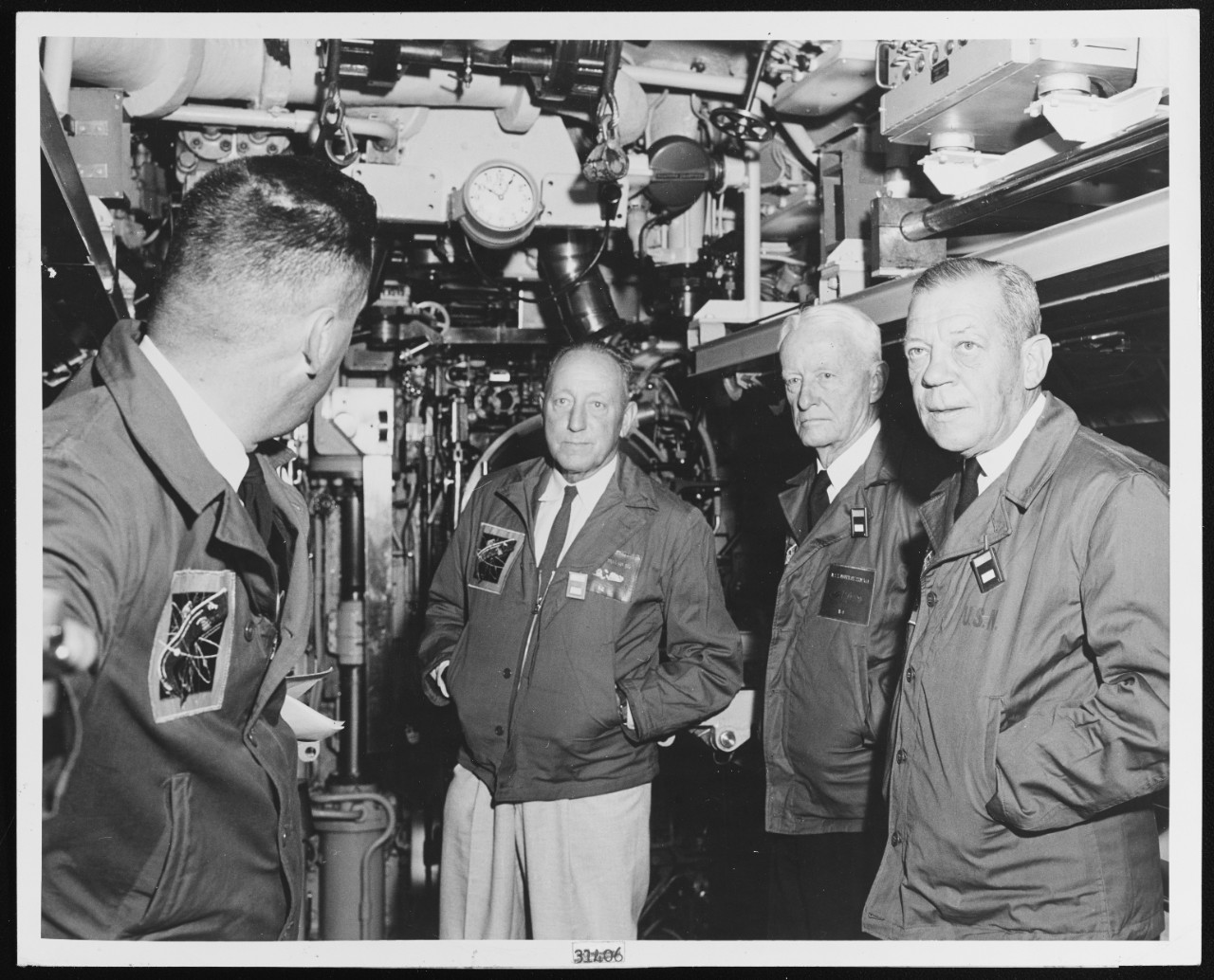 Fleet Admiral Chester W. Nimitz, USN, Vice Admiral Charles A. Lockwood, USN (Ret.) and Admiral Francis S. Low, USN (Ret.) on board USS NAUTILUS (SSN-571), 24 June 1957 at San Francisco, with an officer of the sub. The gathering was in honor of Commander William R. Anderson, USN, commander of this sub.